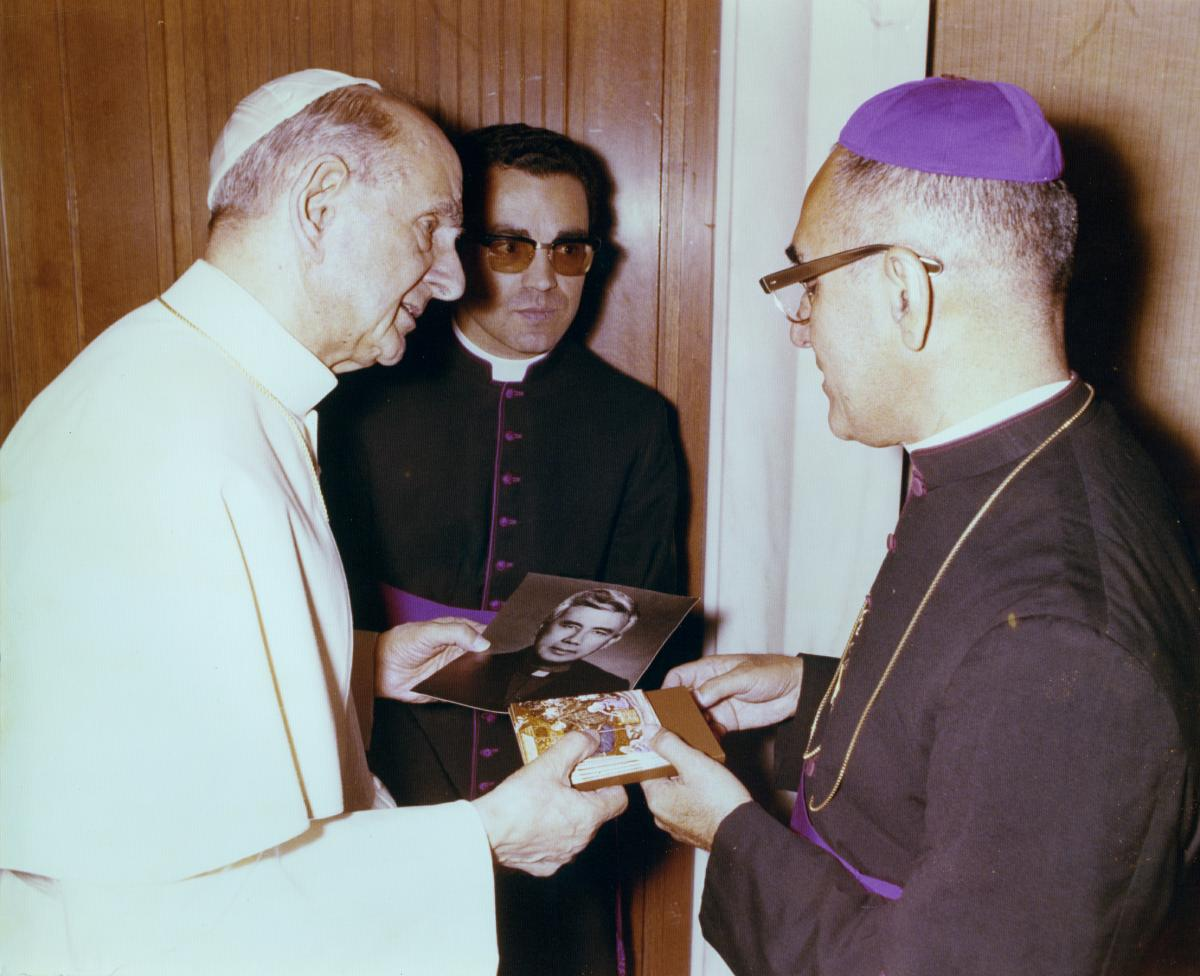 Monseñor Romero junto al papa Pablo VI. Aproximadamente un año antes de la muerte del romano pontífice. El arzobispo de San Salvador le entrega una foto de Rutilio Grande, asesinado un año antes.